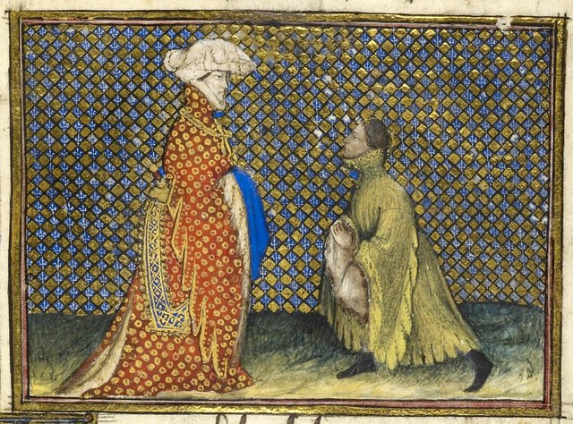 Detail of a miniature of the author, Jean Creton, and the French knight who requests him to go to England. Image taken from f. 2 of La Prinse et mort du roy Richart (Book of the Capture and Death of King Richard II) (index Histoire rimée de Richard II, The Capture and Death of king Richard, Account of the Fall of Richard II, The Chronicle of Jean Creton). Written in French.